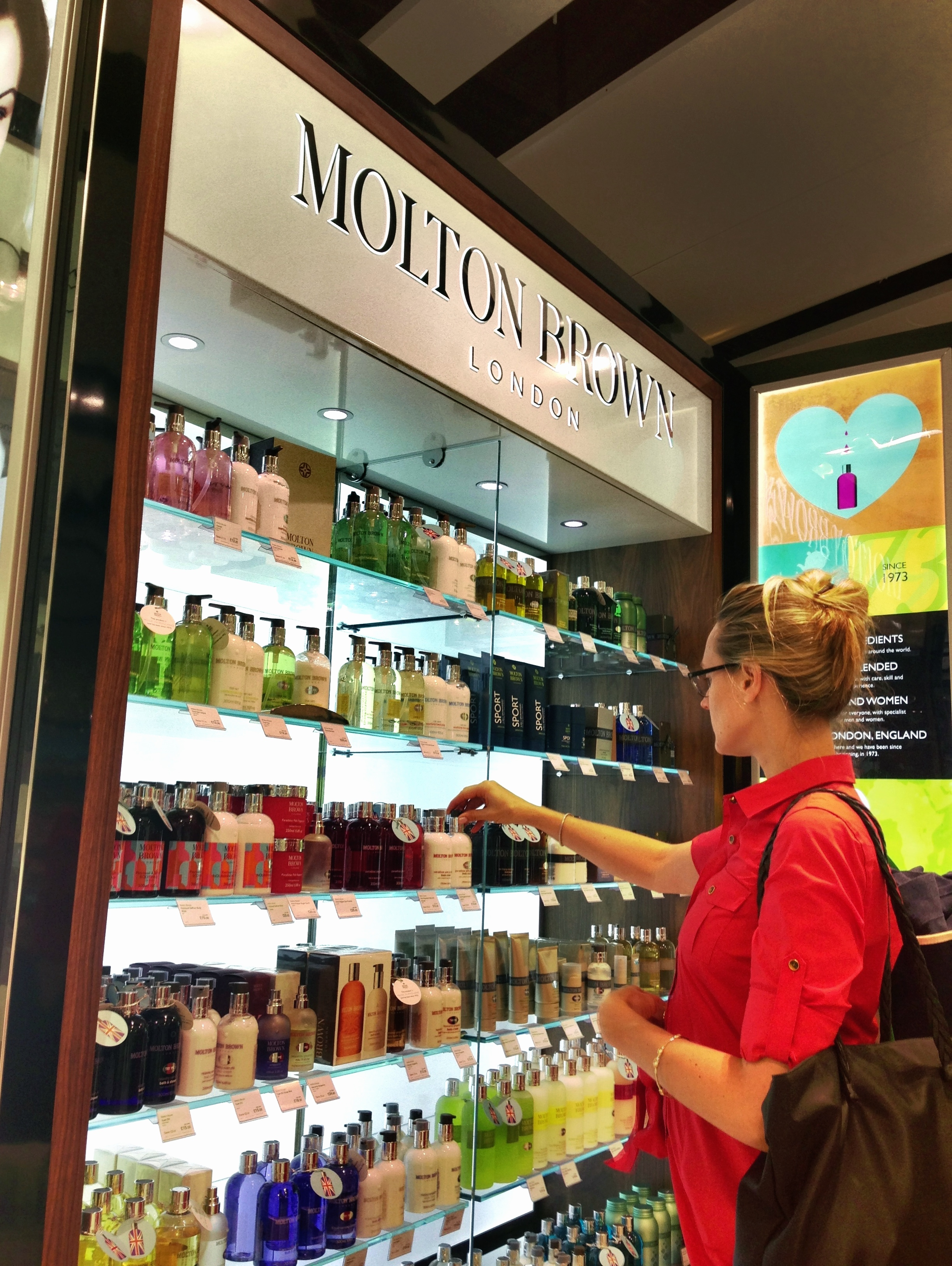 Molton Brown Aug 2013